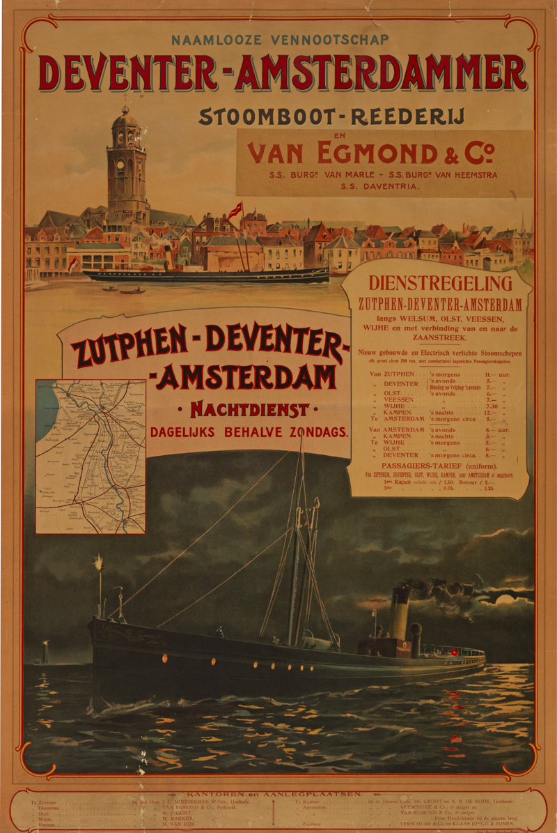 Shipping schedule & company poster, Deventer-Amsterdammer shipping company